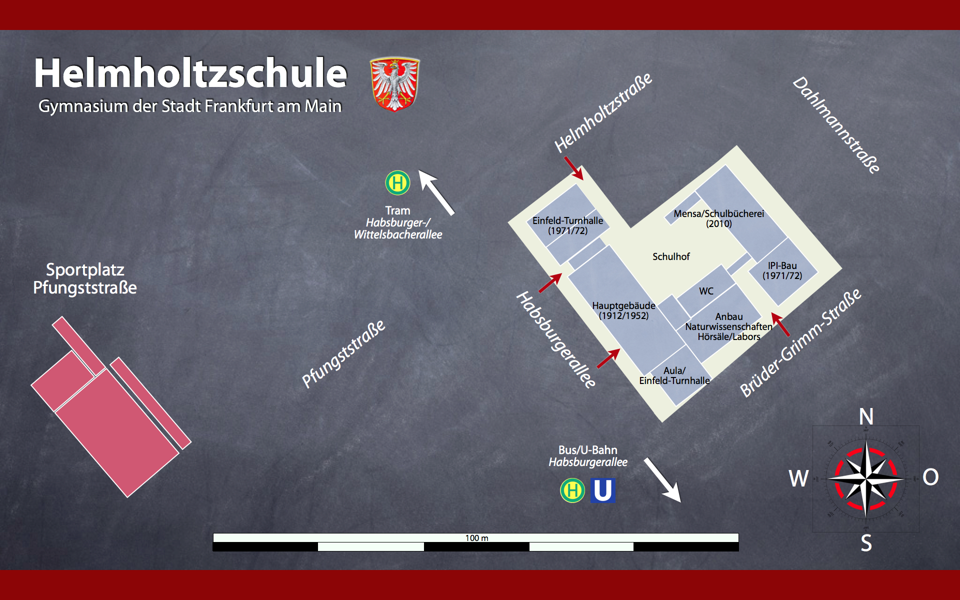 location sketch of Helmholtzschule, Frankfurt am Main, Hesse, Germany